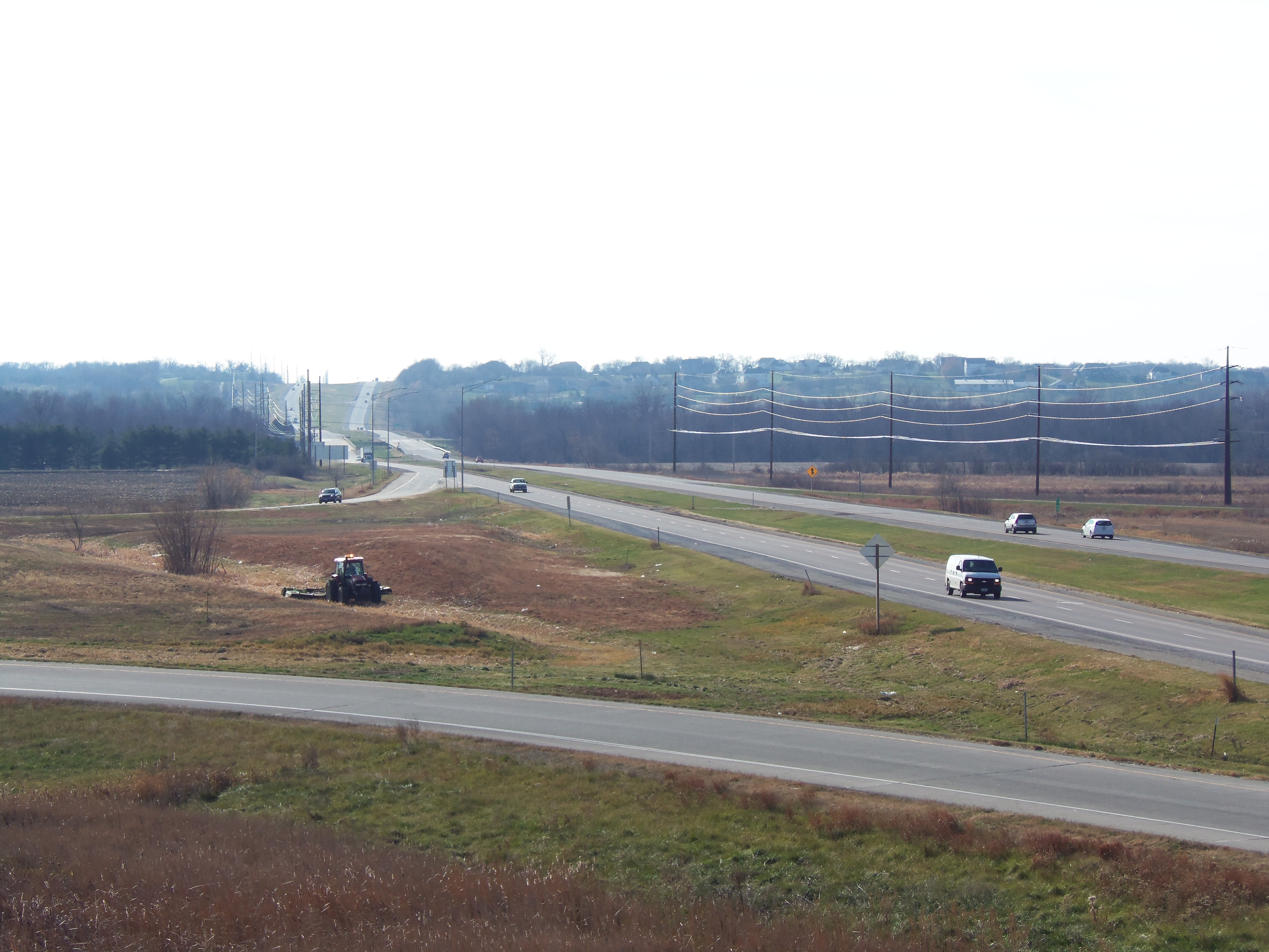 Highway 141 as seen looking South from the Polk City exit.